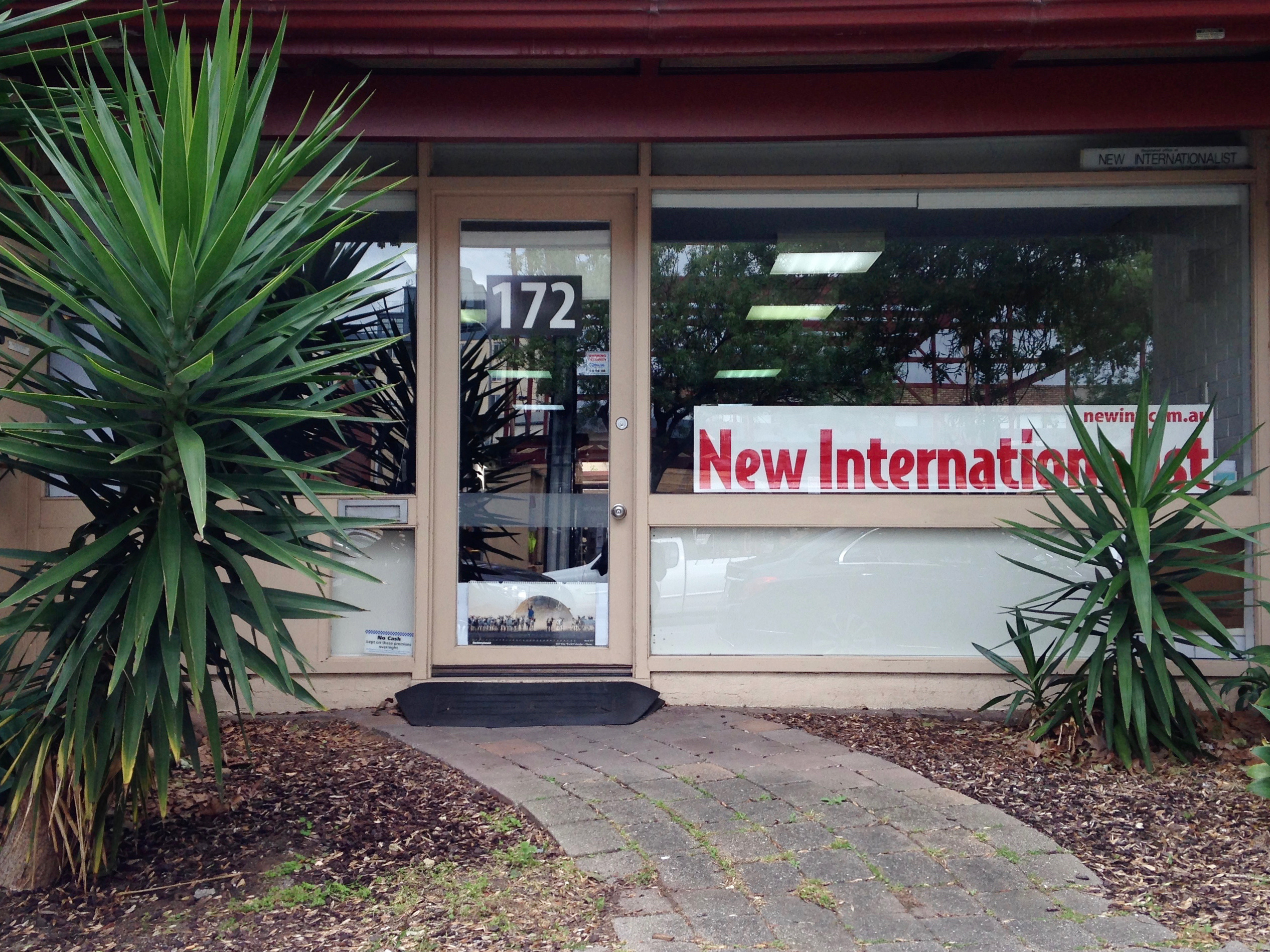 The New Internationalist Australia office at 15 Austin Street, Adelaide, Australia. By Simon Loffler.